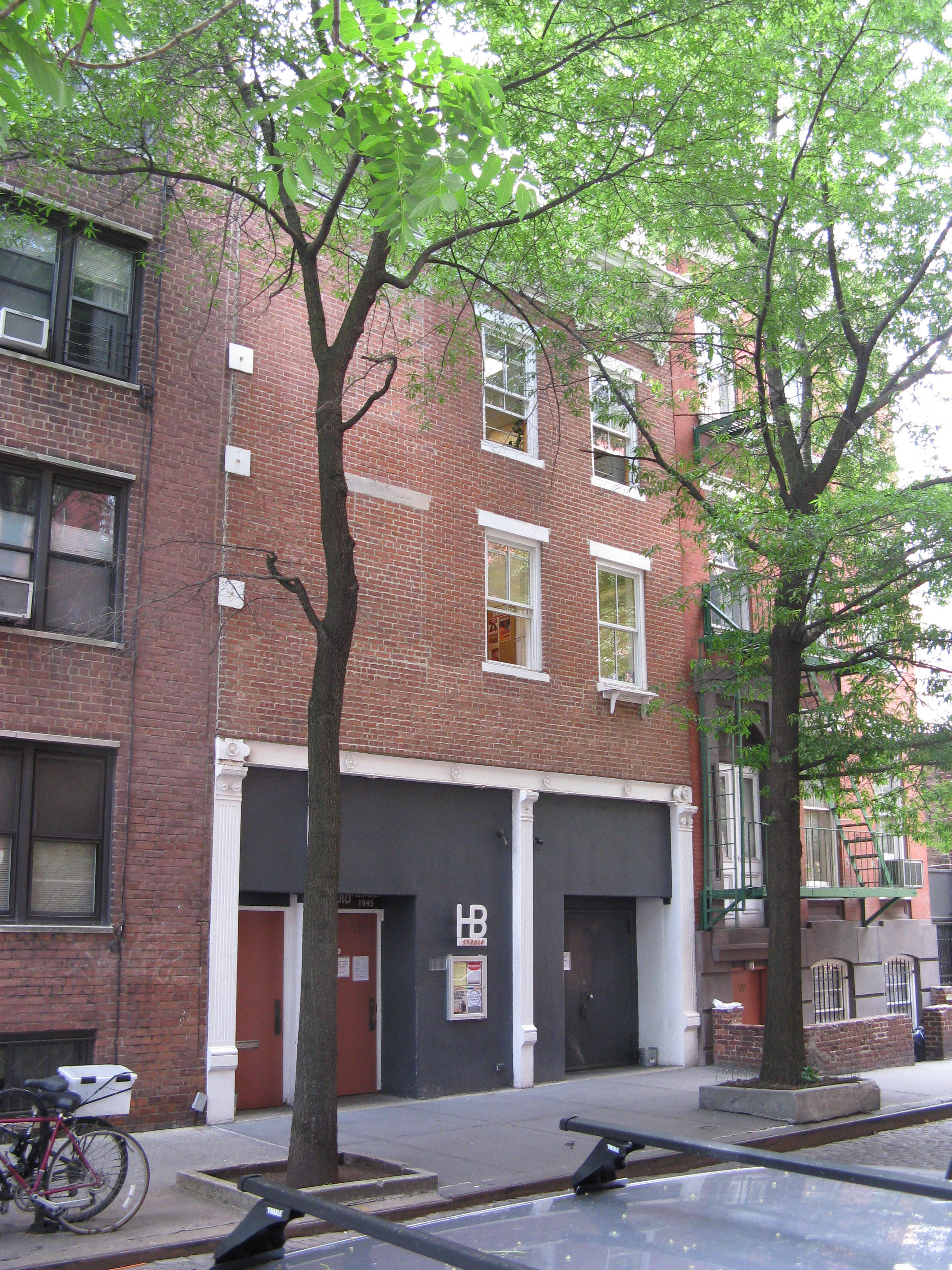 HB Studio, 120 Bank Street, Manhattan